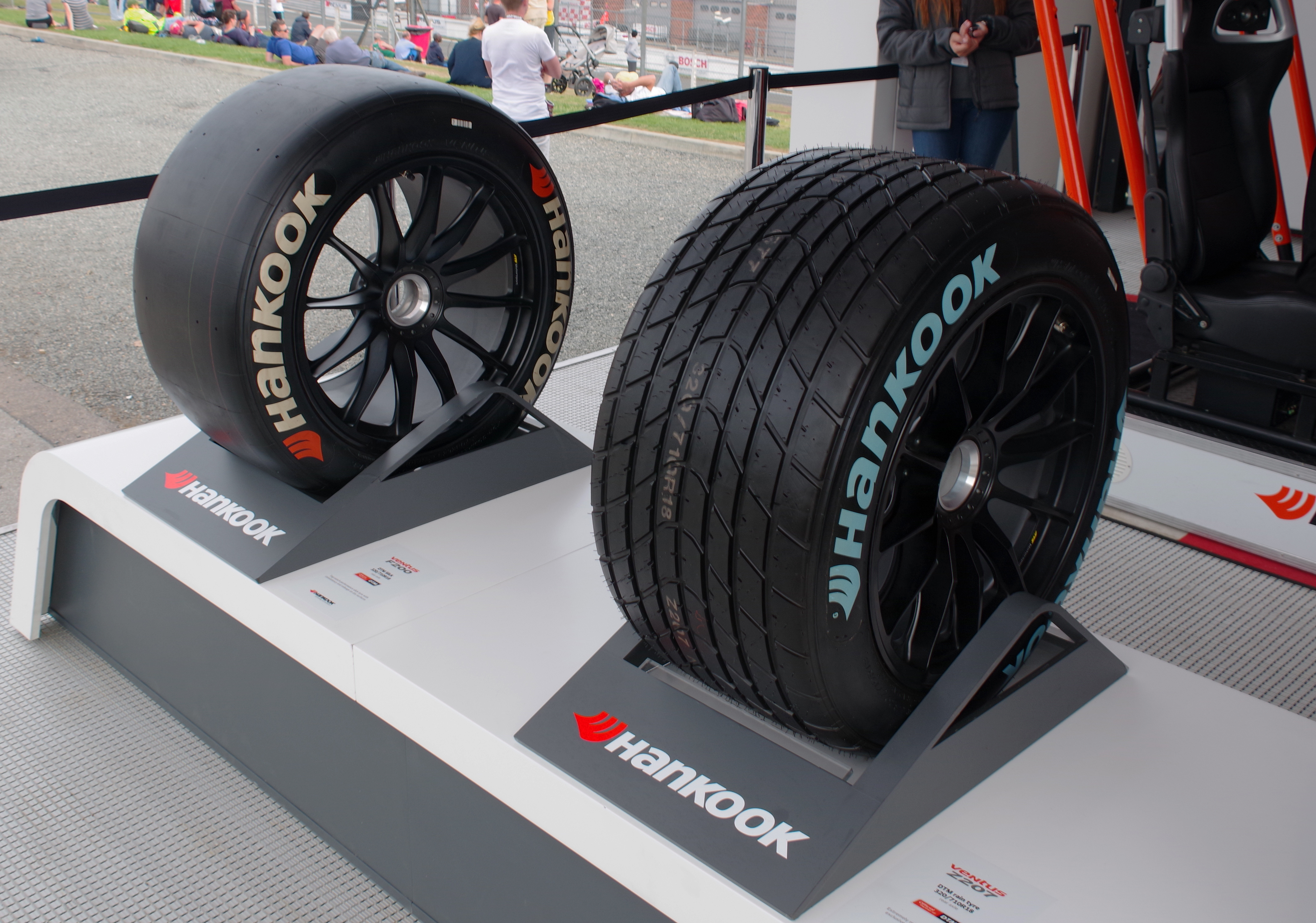 Hankook Tire during a DTM race in Brands Hatch 2018.